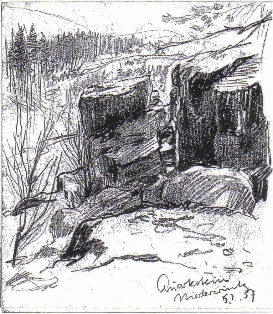 The Quarksteine in Niedercrinitz